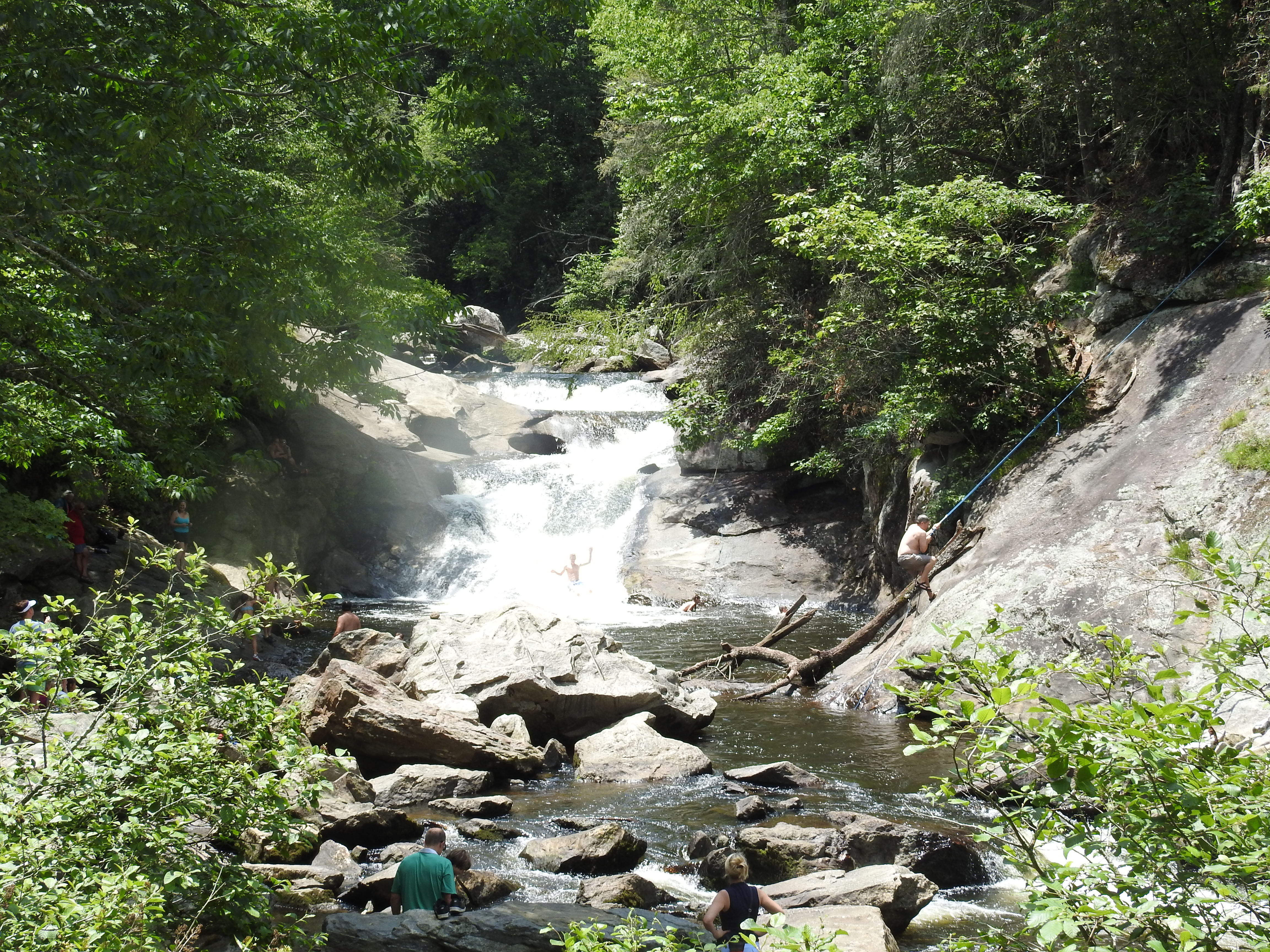 Sliding and swimming at Bust-Your-Butt-Falls (Quarry Falls), Macon County, North Carolina.